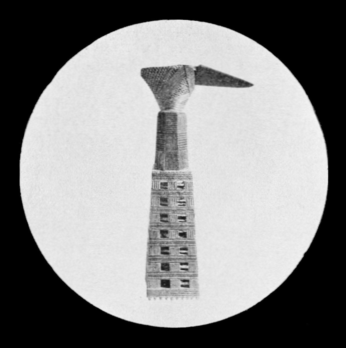 South seas carved ceremonial stone adze